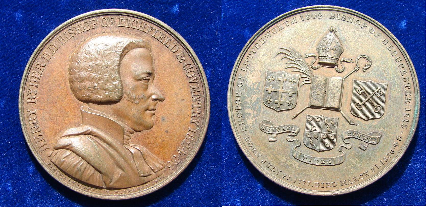 Bronze, d. = 45 mm. Ryder, Henry, Bishop, 1777 Streatham, Surrey - 1836 Hastings, Sussex Portrait r., around: "HENRY RYDER D.D. BISHOP OF LICHFIELD & COVENTRY 1824 - 36"/ Diocesan arms, around: "RECTOR OF LUTTERWORTH 1802. BISHOP OF GLOUCHESTER 1815 - 24 BORN JULY 21. 1777. DIED MARCH 31. 1836.". Medallist: Thomas Wells Ingram, Birmingham, 1799 Warwickshire - 1844 Birmingham Condition: EXTREMELY FINE